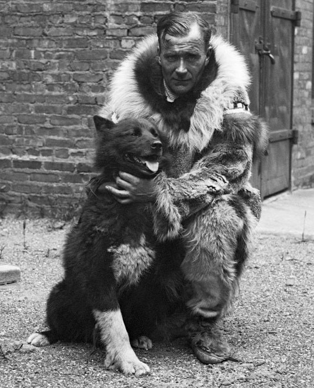 Celebrated sled dog Balto with Gunnar Kaasen. Norwegian immigrant Gunnar Kaasen was the musher on the last dog team that successfully delivered diphtheria antitoxin to Nome, Alaska in 1925. Balto was the lead dog for that final leg of 53 miles of the total 674-mile trip.